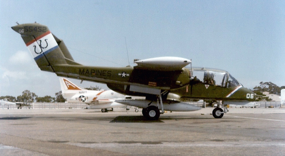 A U.S. Marine Corps North American OV-10A Bronco (BuNo 155452) from Marine Observation Squadron VMO-2.